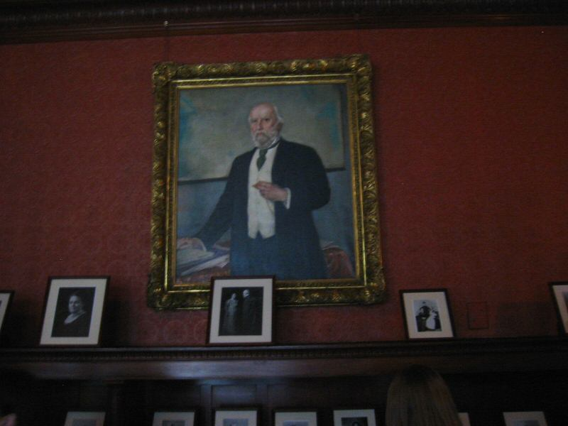 A portrait of James J. Hill in the James J. Hill House. The quality is not as good as desirable because flash photography is not permitted on tours.